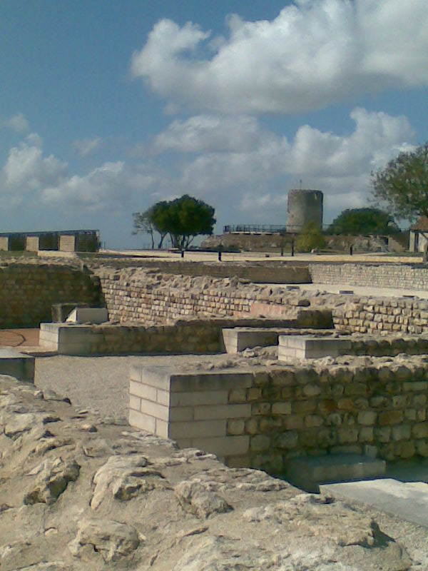 Ruins of a Gallo-roman city at Barzan (Novioregum?), Charente-Maritime, SW France. Thermae. Sudarium (wet) or destrictarium (dry): hot room (60°C)